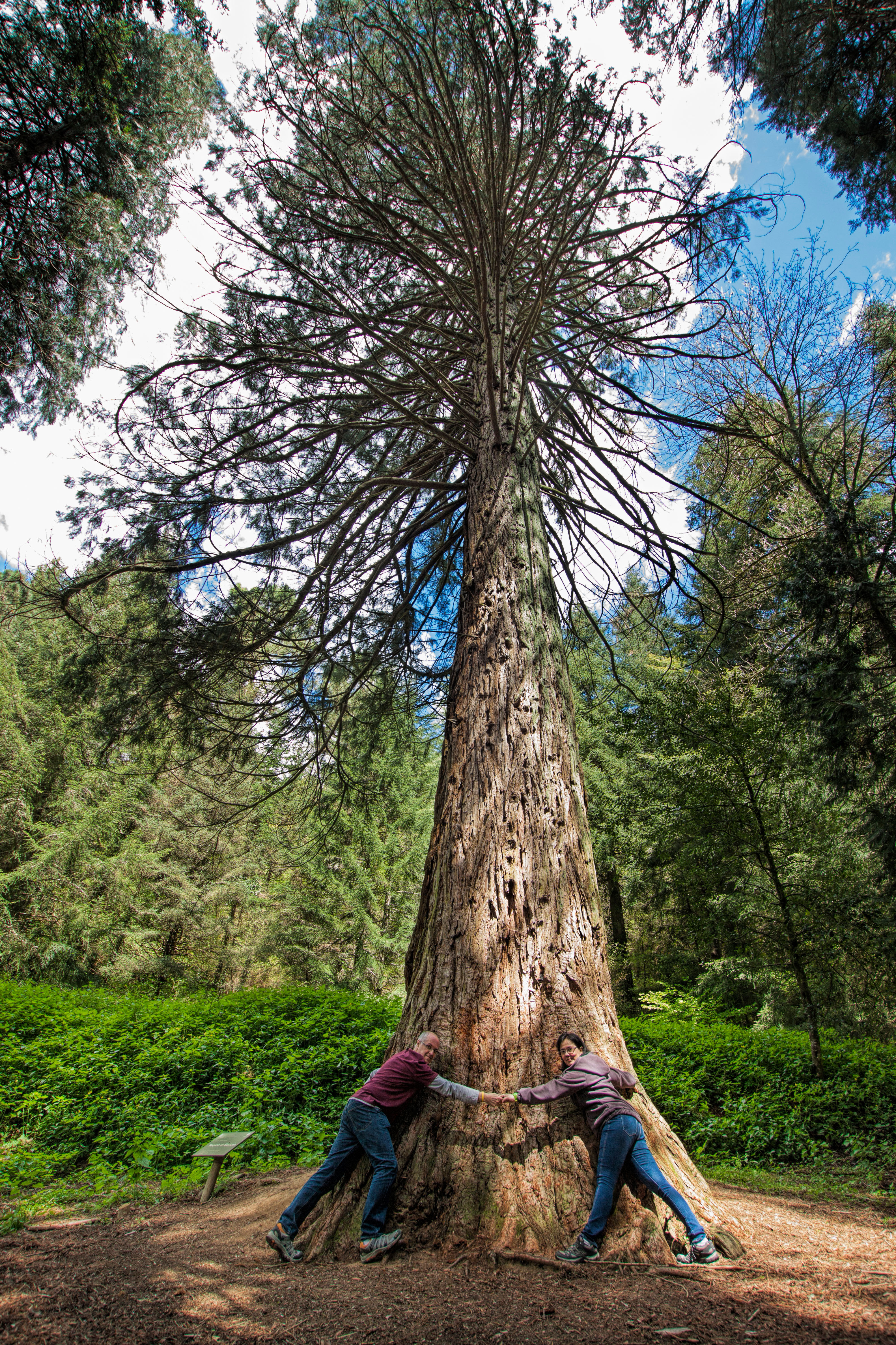 This is a a photo of a protected or outstanding tree in Catalonia, Spain, with id: MA-24.063.07